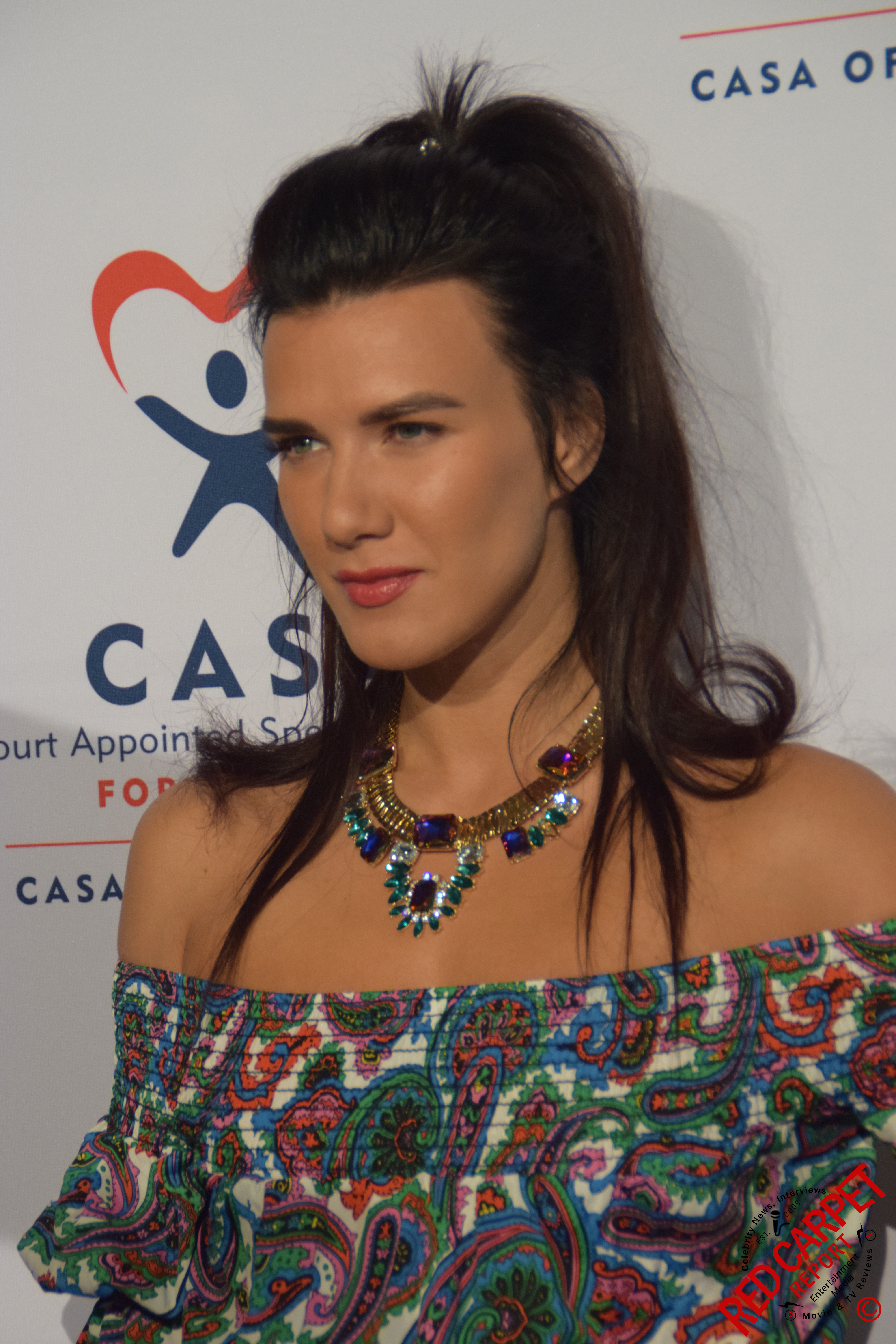 Natalie Burn at CASA of Los Angeles’ 3rd Annual Evening to Foster Dreams Gala on May 12, 2015